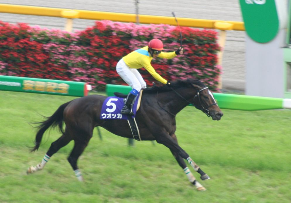 Vodka (horse, at Tokyo Racecourse)